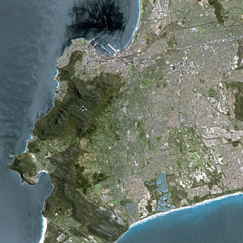 Cape Town by SPOT Satellite